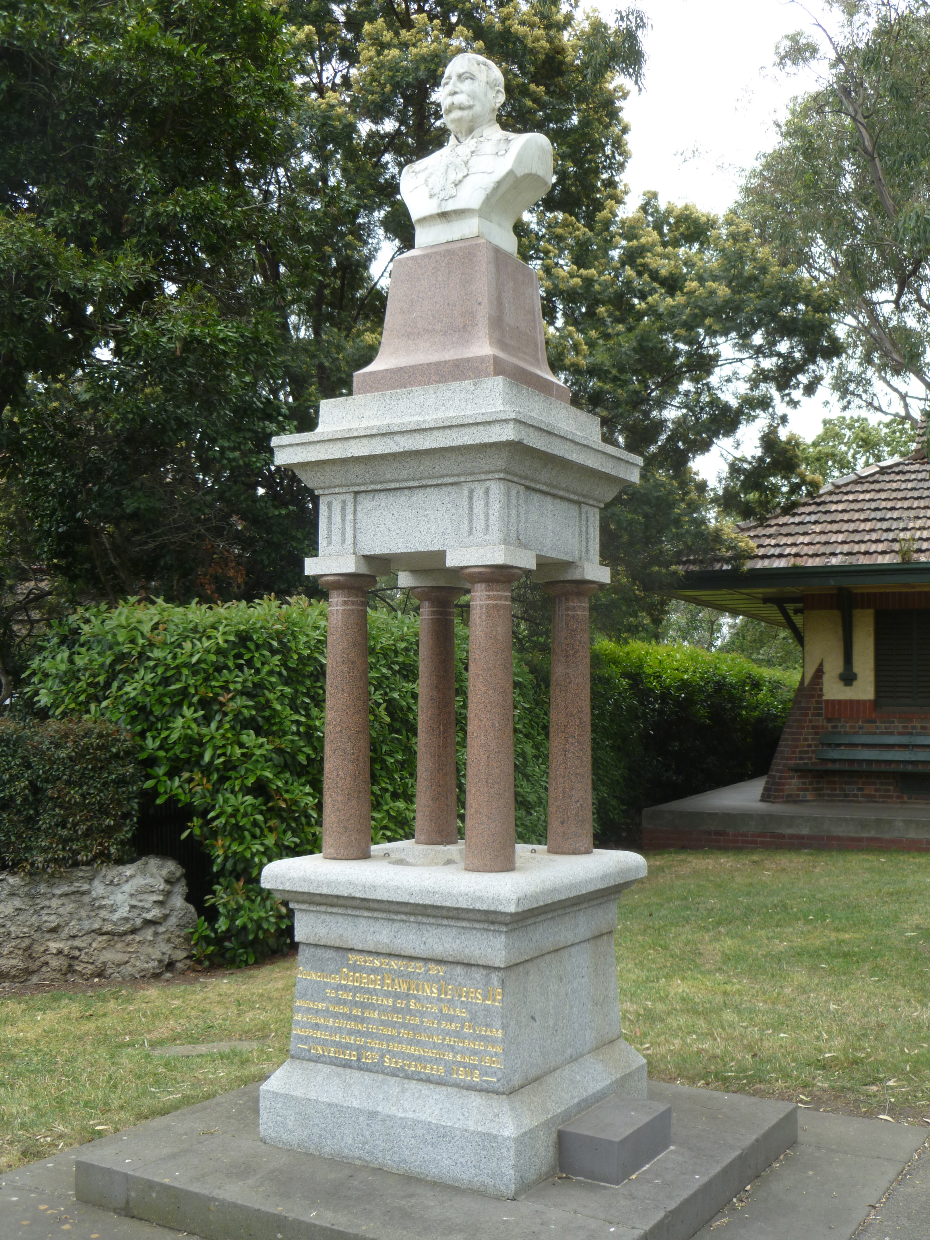 Photograph of the George Ievers memorial drinking fountain, Melbourne, 1916